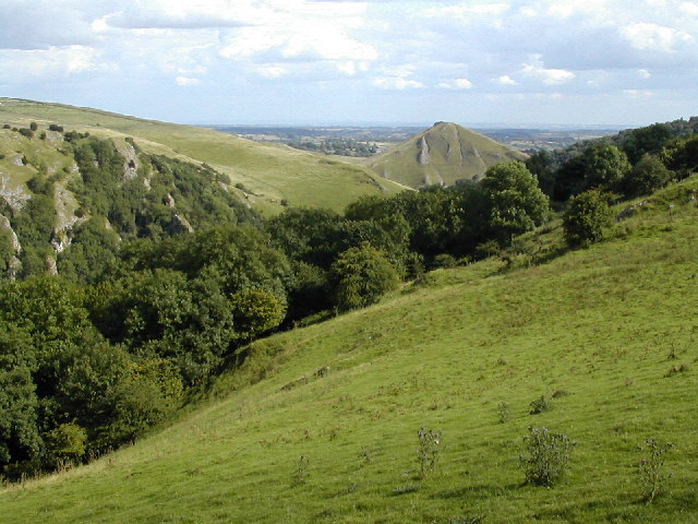 Field above Dovedale wood. A field close to Air Cottage which is perched above Dovedale. In the distance is Thorpe Cloud.